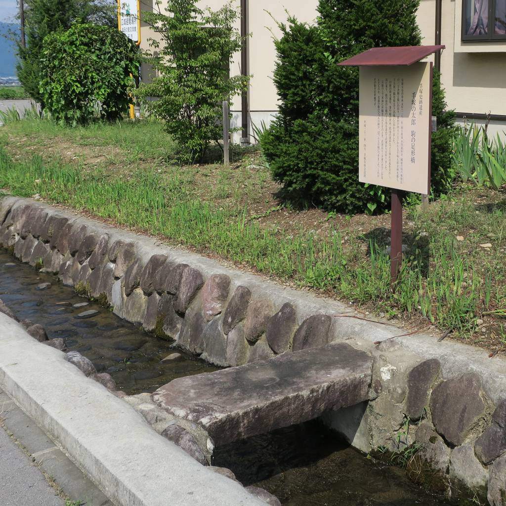 Tokko kan (Ueda, Nagano) Koma no Ashigata Bridge.